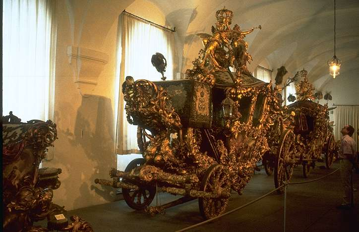 I made the photo myself, I release it into the public domain with no copyrights. 1999